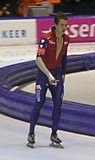 Stefan Groothuis (NED) at a World Cup in Thialf (Heerenveen, The Netherlands)